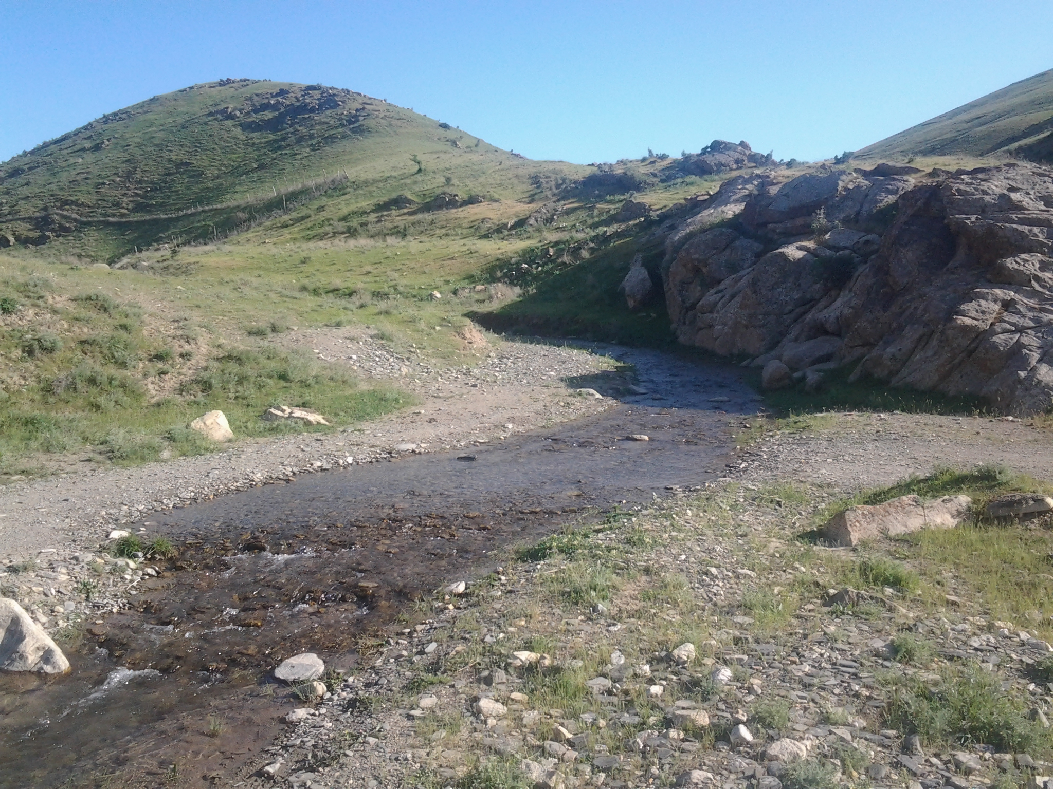 Tiktash, left tributary of Beklar Say